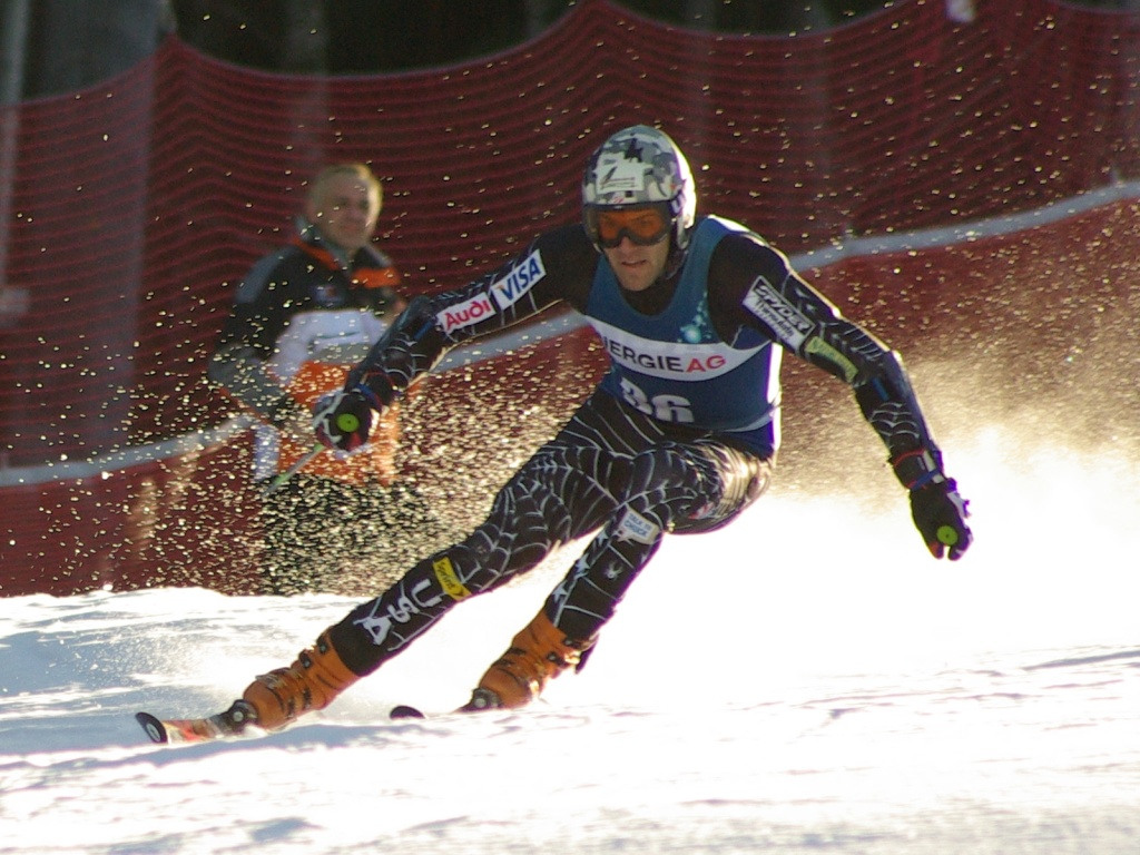 American alpine skier Jake Zamansky during the European Cup Giant Slalom in Hinterstoder, Austria on January 11, 2008.